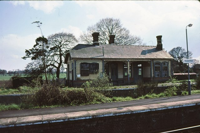 Westerfield - original station building 1979 The original terminus buildings of the Felixstowe Railway, long-disused by 1979.